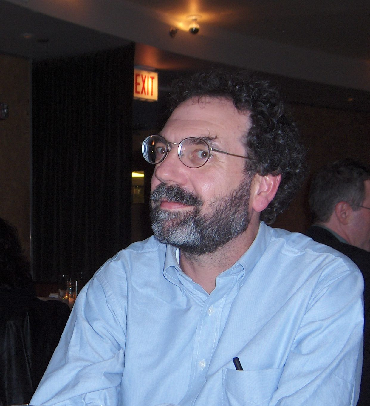 John R. Levine, mayor of Trumansburg, Orbitz advisor, wine connoisseur and all-round Netonaut